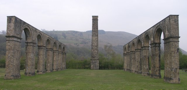 Yniscedwyn iron works With the many coal mines in the surrounding area, it was only natural for the heavy industry of metal working to go hand in hand. Here we see the remains of the victorian Yniscedwyn iron works, which made use of the revolutionary hot blast process. The arches and chimney stack are all that remain today of a large factory that sprawled across this area.